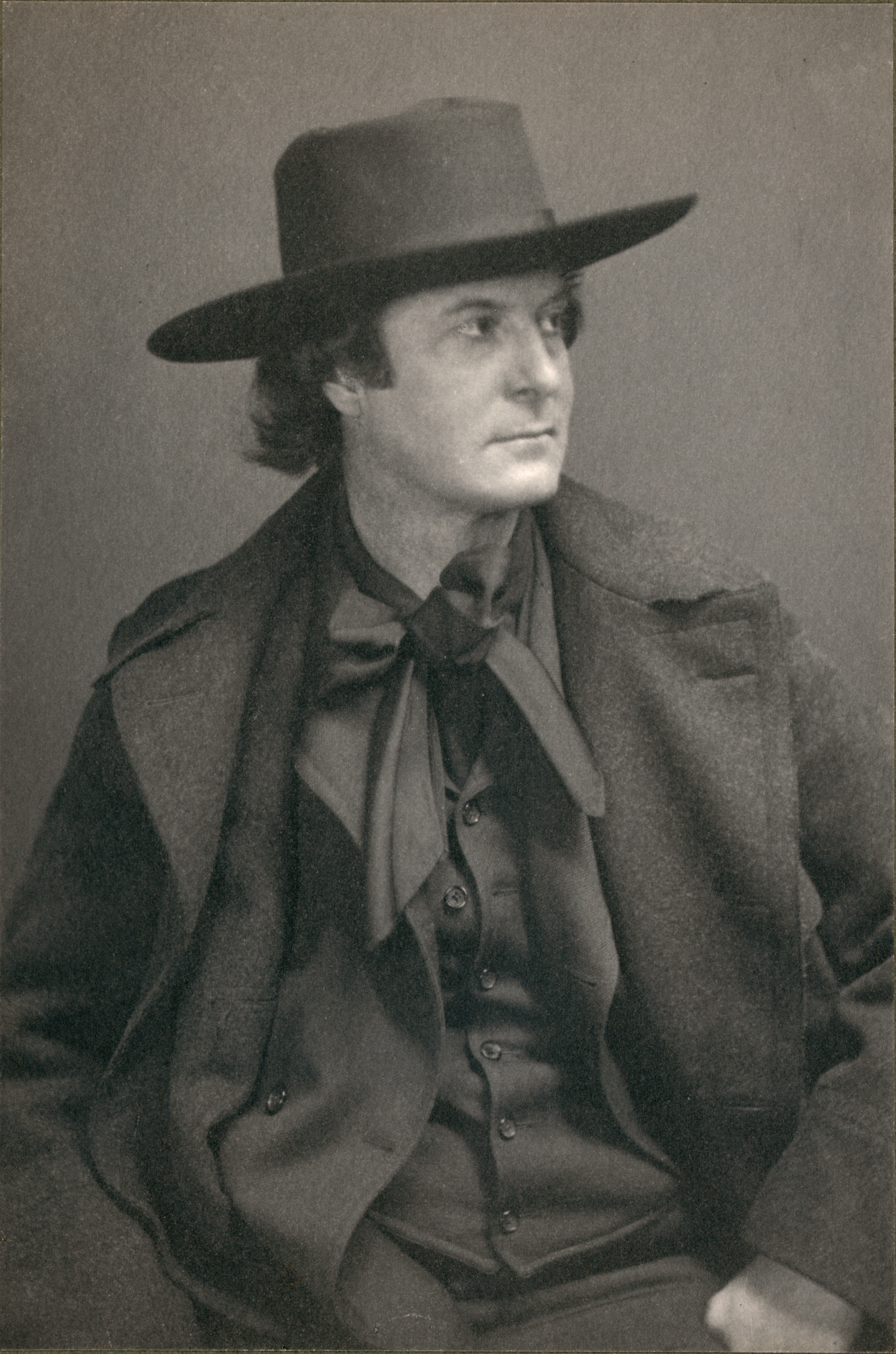 Amercian philosopher Elbert Hubbard (1856-1915). Photograph by Zaida Ben-Yusuf (1869-1933) with a dedication to photographer Frances Benjamin Johnston (1864-1952): "Frances B. Johnston, with all kind wishes from her friend Elbert Hubbard". Photograph exhibited in "Ambassadors of progress", 2001-2003, and in "The life and portrait photography of Zaida Ben-Yusuf" at the National Portrait Gallery, Washington, D.C., 2008.